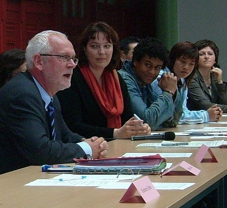 Ulrich Stockmann (2007)